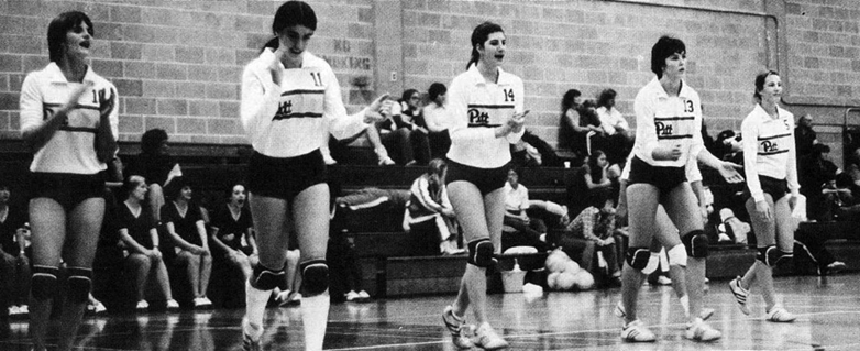 The 1978 Pitt Panther volleyball team of the University of Pittsburgh was the school's first volleyball team to win the EAIWA Eastern Regional Championship and advance to the collegiate volleyball national championships, then held by the Association for Intercollegiate Athletics for Women, where they finished 13th in the nation.